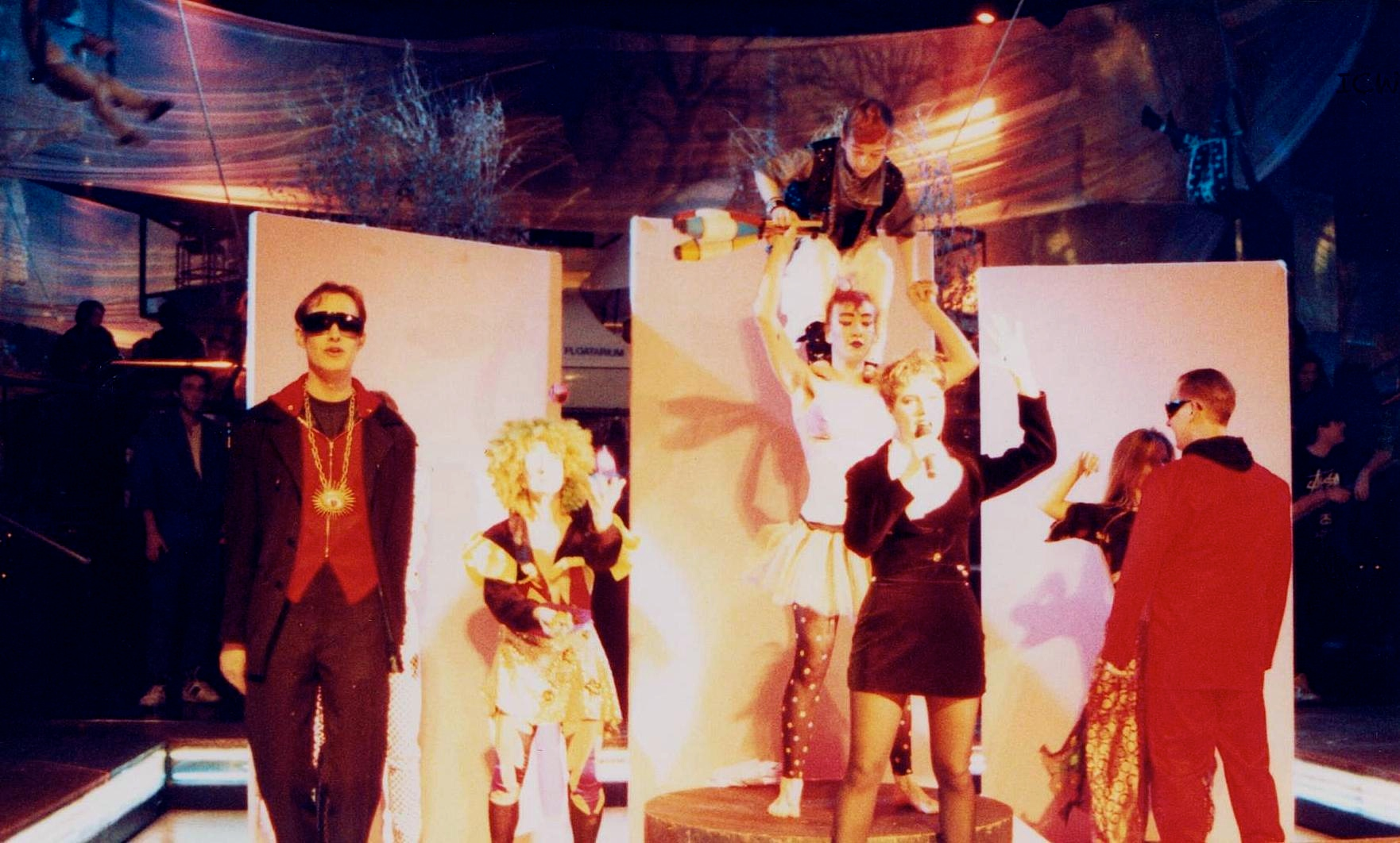 Big Bang (British Band) on stage during their lavish Arabic Circus Tour that consisted of various circus acts including acrobats, one-wheel bicycle riders, fire-eaters, jugglers, flying trapeze artists and a belly-dancing troupe